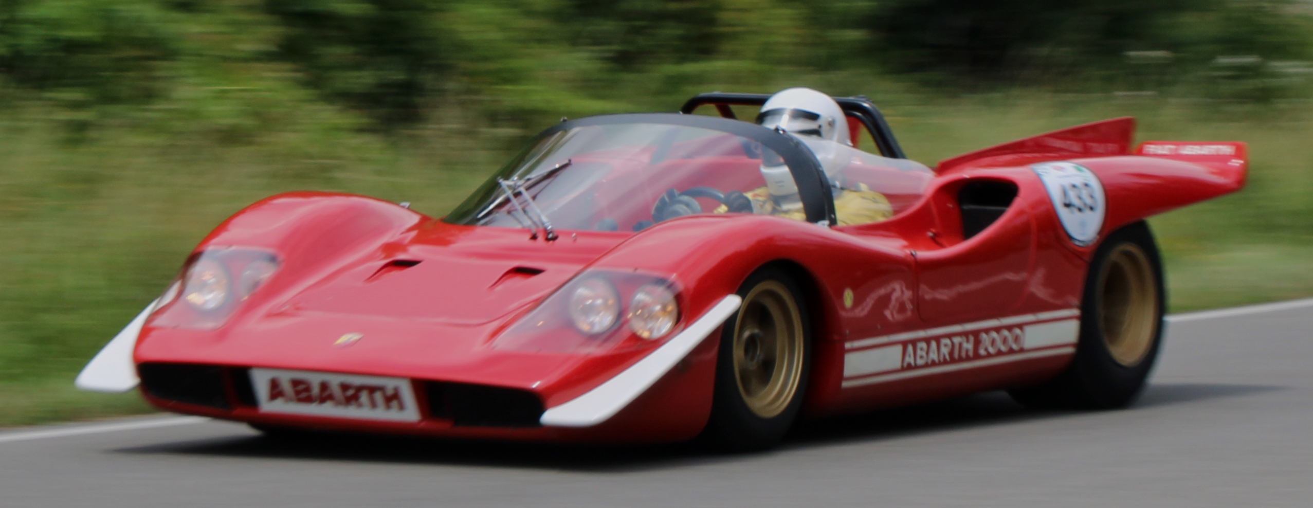 Fiat-Abarth 2000 Sport (1964) at Solitude Revival 2019